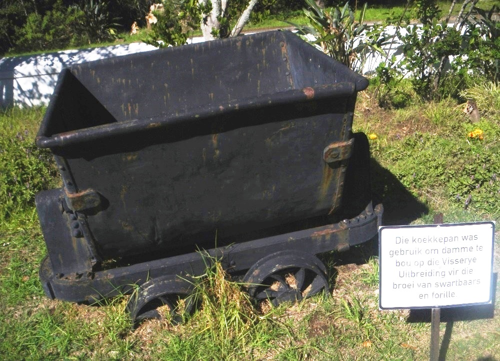 Foto of a so-called "Koekepan" (Afrikaans). A small metal wagon used in South African mines.